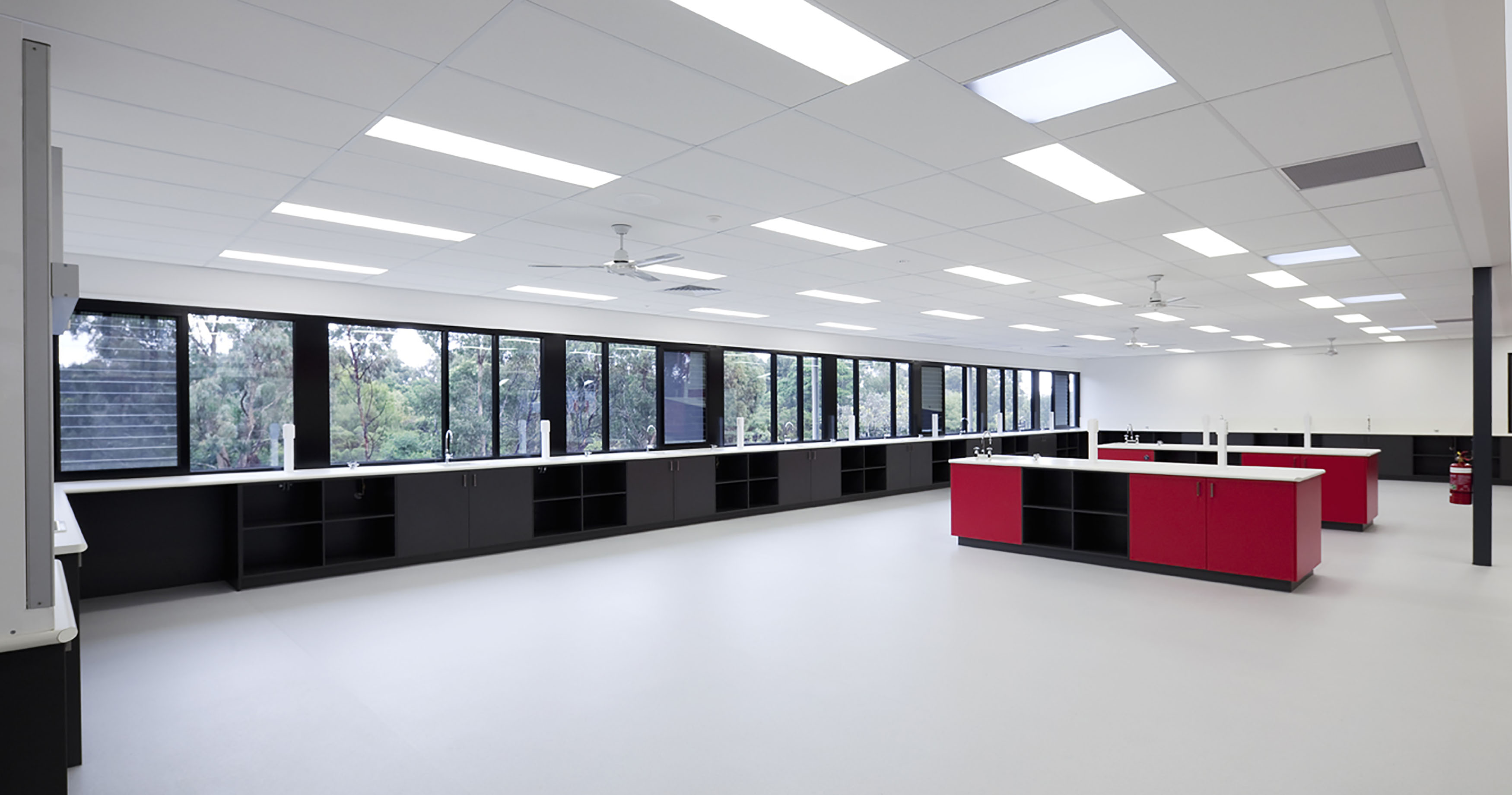 Ashwood Secondary College's Science Laboratory